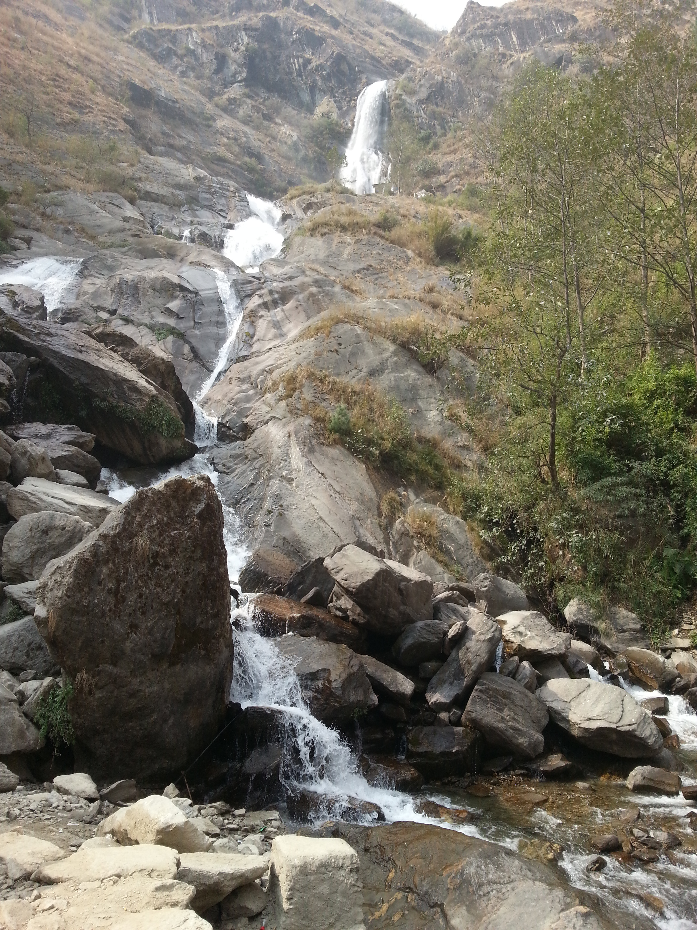 This is Rupse fall located at Myagdi district of Nepal.